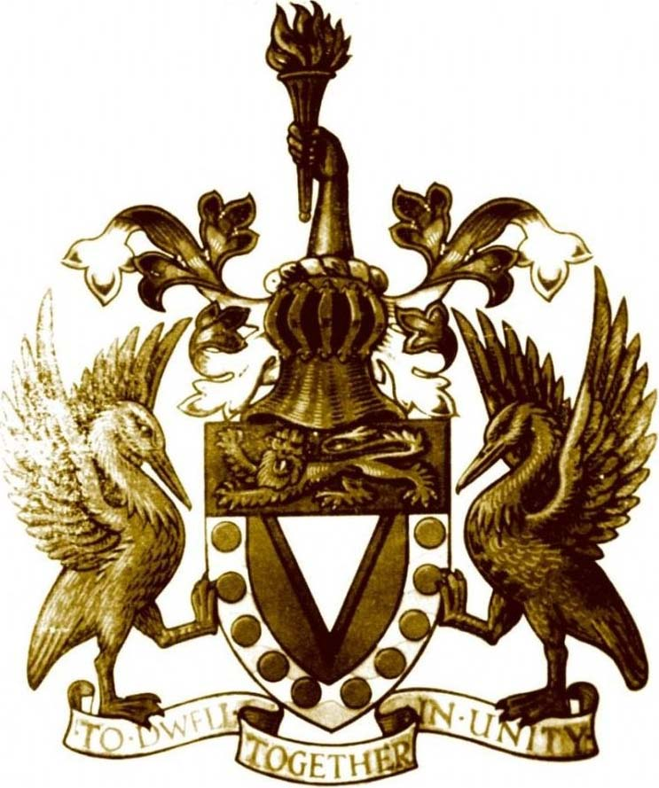 Coat of arms of the Federation of the West Indies. This image must have been created before 1956.